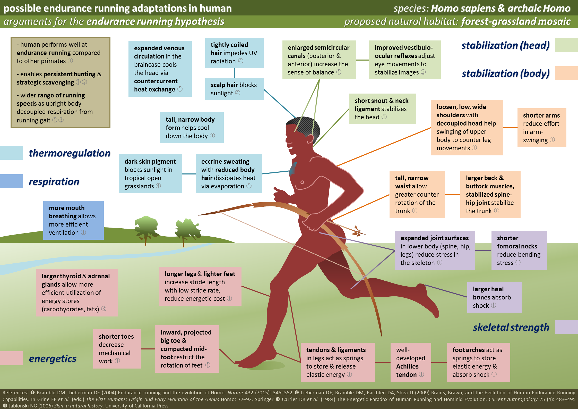 Possible endurance running adaptations in human - Arguments for the endurance running hypothesis Behance page Notes: The diagram demonstrates the arguments proposed in the endurance running hypothesis (ER), that endurance running may have influenced human evolution, caused numerous adaptations in human morphology, anatomy and physiology. This diagram is a plain description of the hypothesis and does not provide any support nor criticism to the arguments. It must be noted that the points listed are not facts, but hypothetical claims that require further scientific investigations to verify their accuracy, falsifiability, and relevance to human evolution. The possible adaptations are grouped into color codes (according to reference 1): red = energetics, purple = skeletal strength, green/orange = stabilization (head/body), light blue = thermoregulation, medium blue = respiration. See File:Human_Aquatic_Adaptations.png for a similar summary of the aquatic ape hypothesis (AAH).